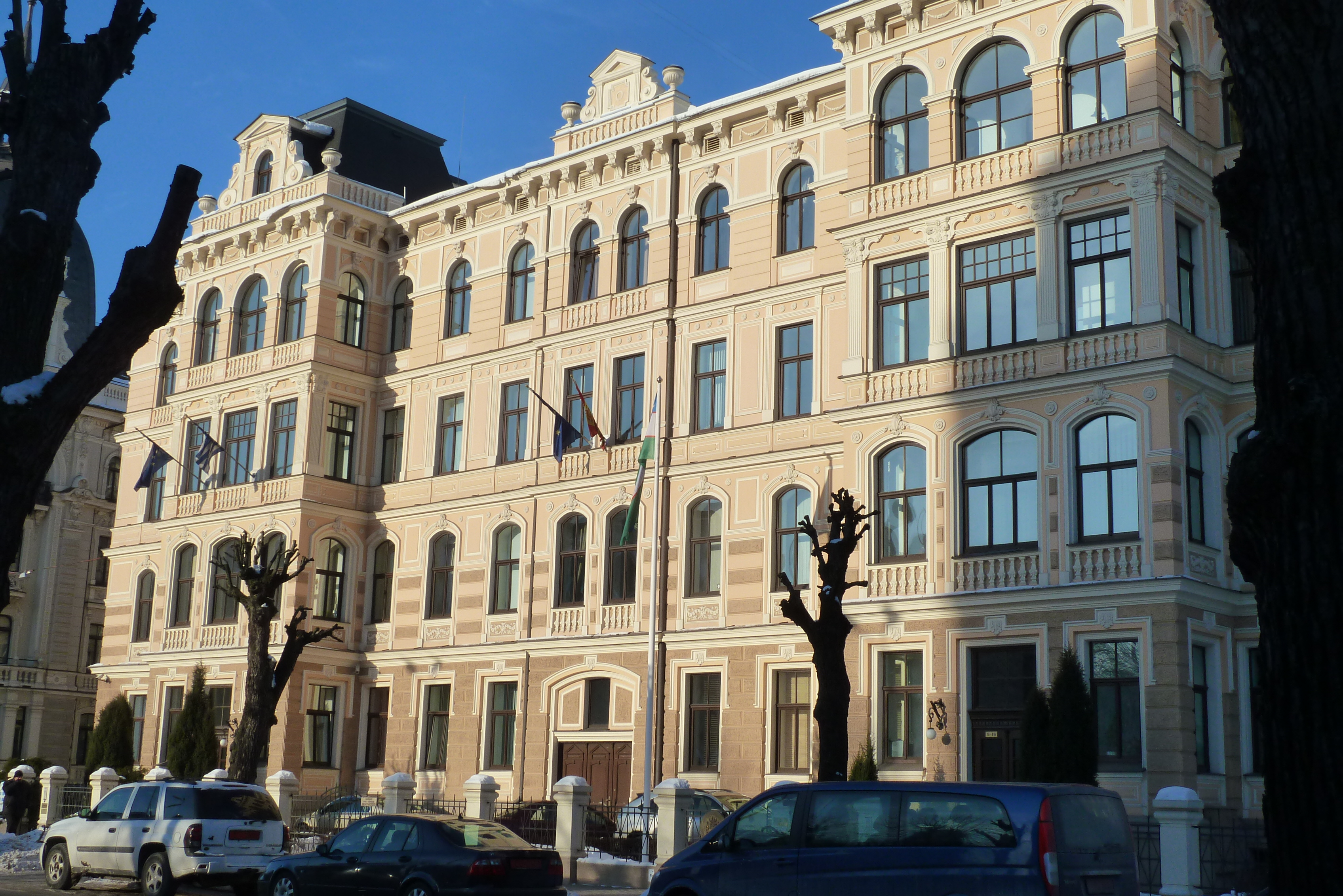 Embassy of Spain, Greece and Uzbekistan in Riga, Elizabetes iela 11, Latvia